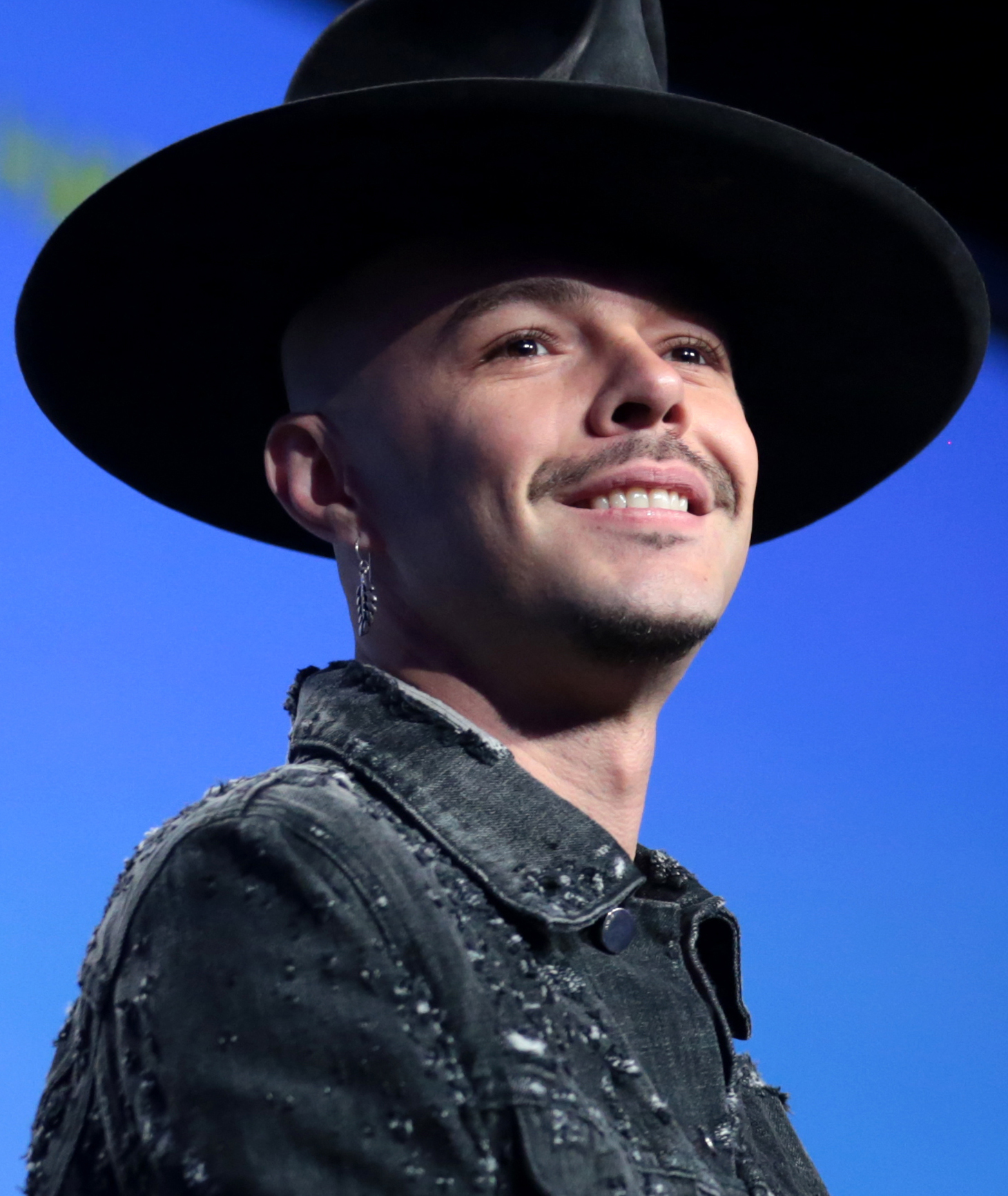 Jesse & Joy speaking at an event in Phoenix, Arizona.